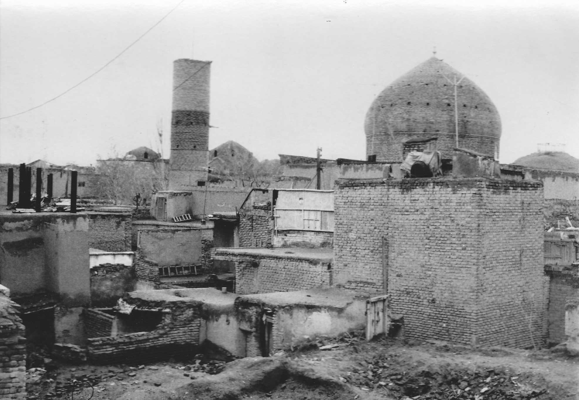 Haj Safar Ali Mousqe, Photo-by-Melmasi